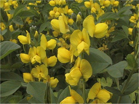 Thermopsis lupinioides